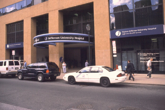 Thomas Jefferson University Hospital, 10th Street entrance. Philadelphia. CDC PHIL image library id #1741